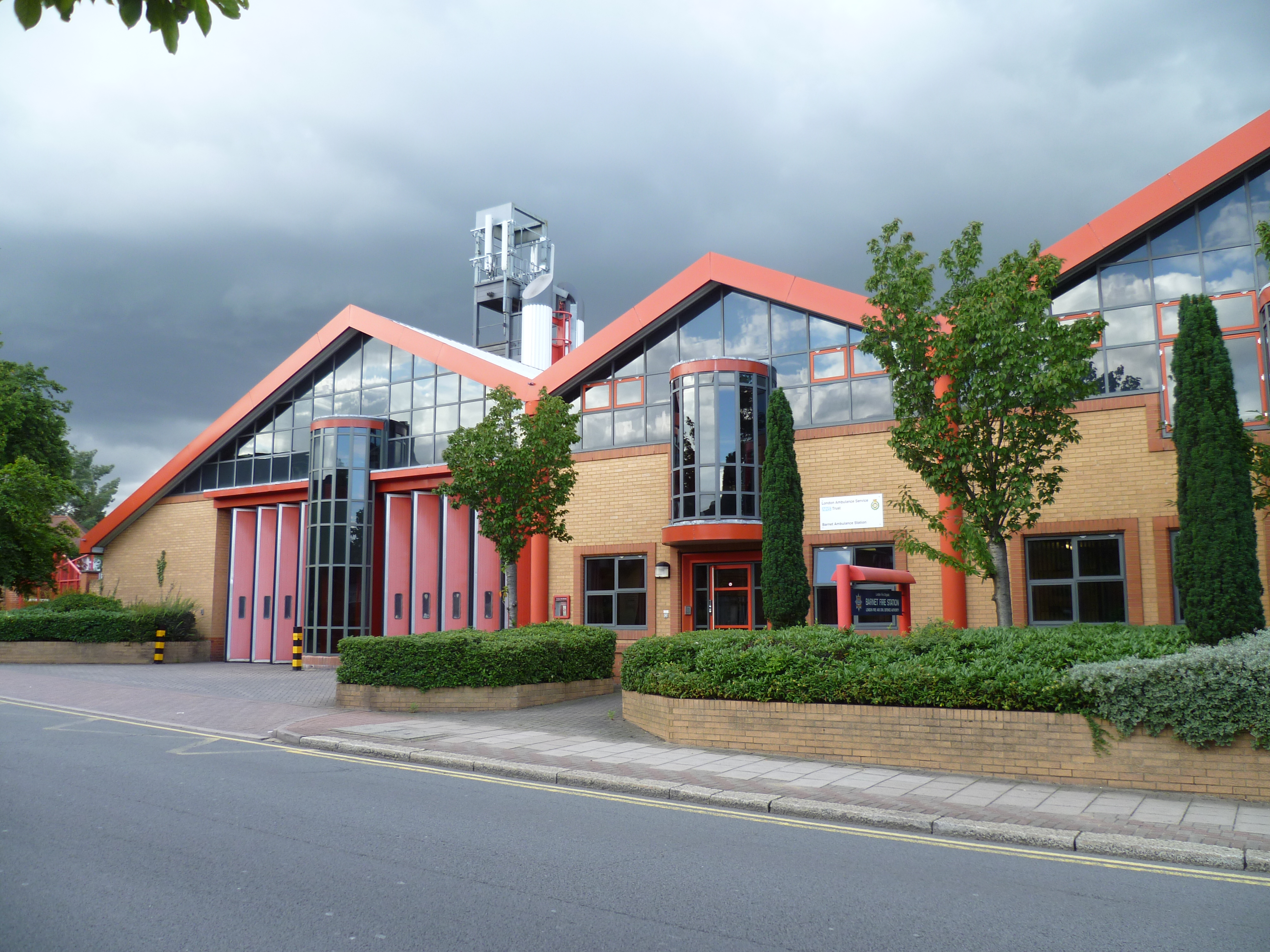 Barnet Fire Station 27 Aug 2015